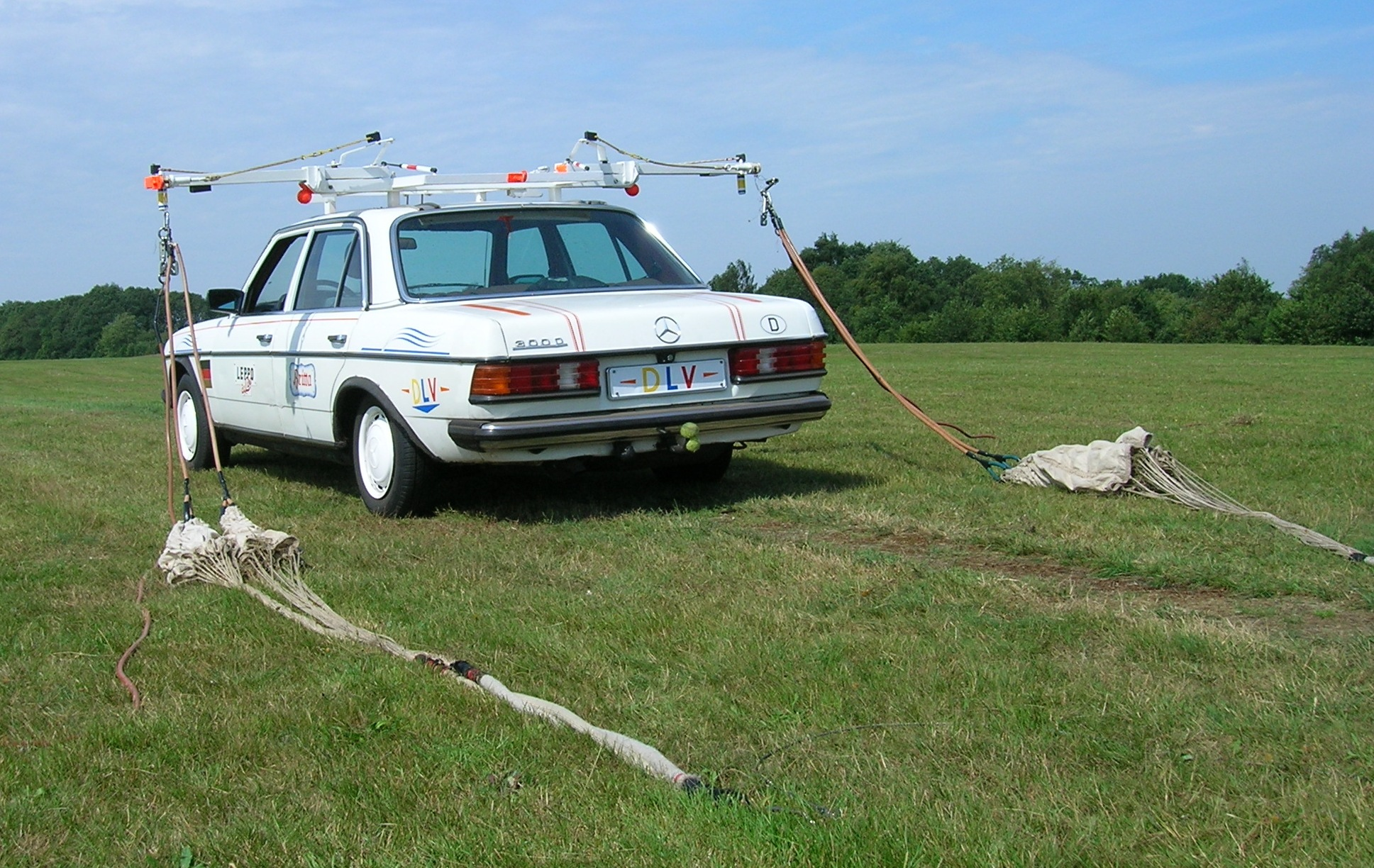 Sankt Michaelisdonn airport